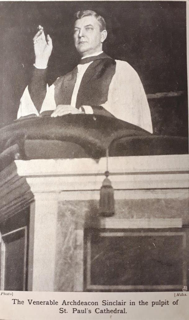 The Venerable William Sinclair DD FRGS, Archdeacon of London